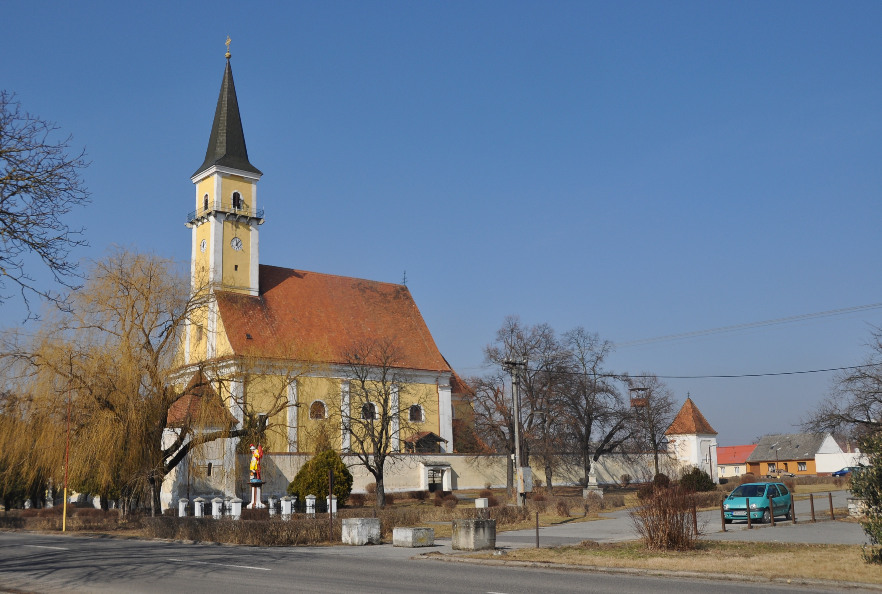 Gajary (Malacky district, Slovakia), church of the Annunciation, built at 1680. March 2012.